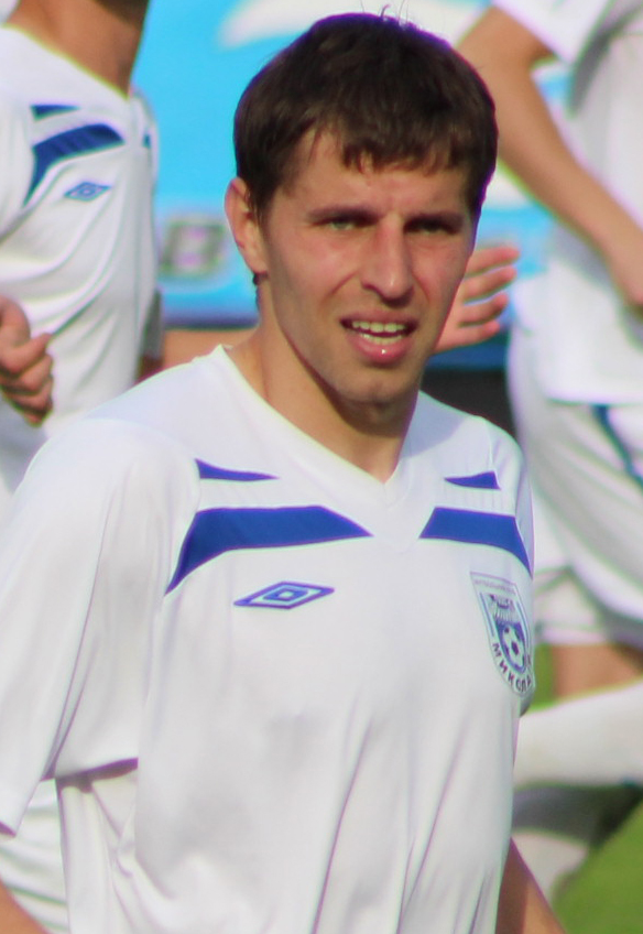 Roman Lutsenko